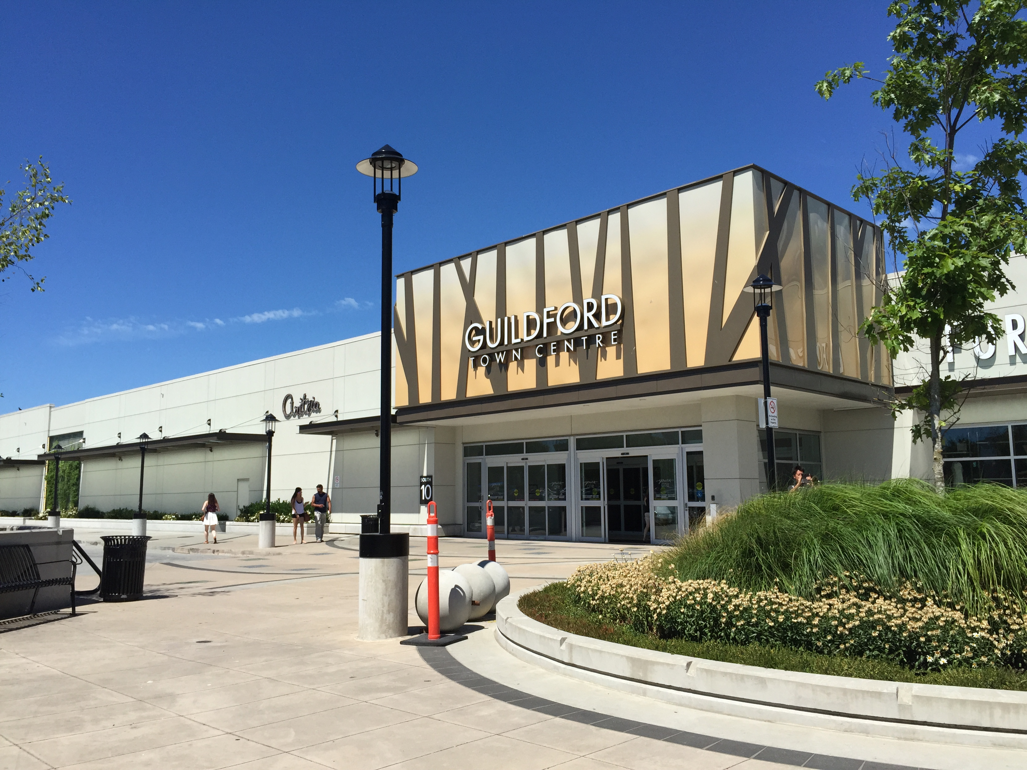 Guildford town centre mall exterior